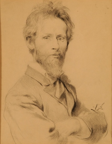 Self-portrait. pencil on papermedium QS:P186,Q14674;P186,Q11472,P518,Q861259. 225 × 175 mm.